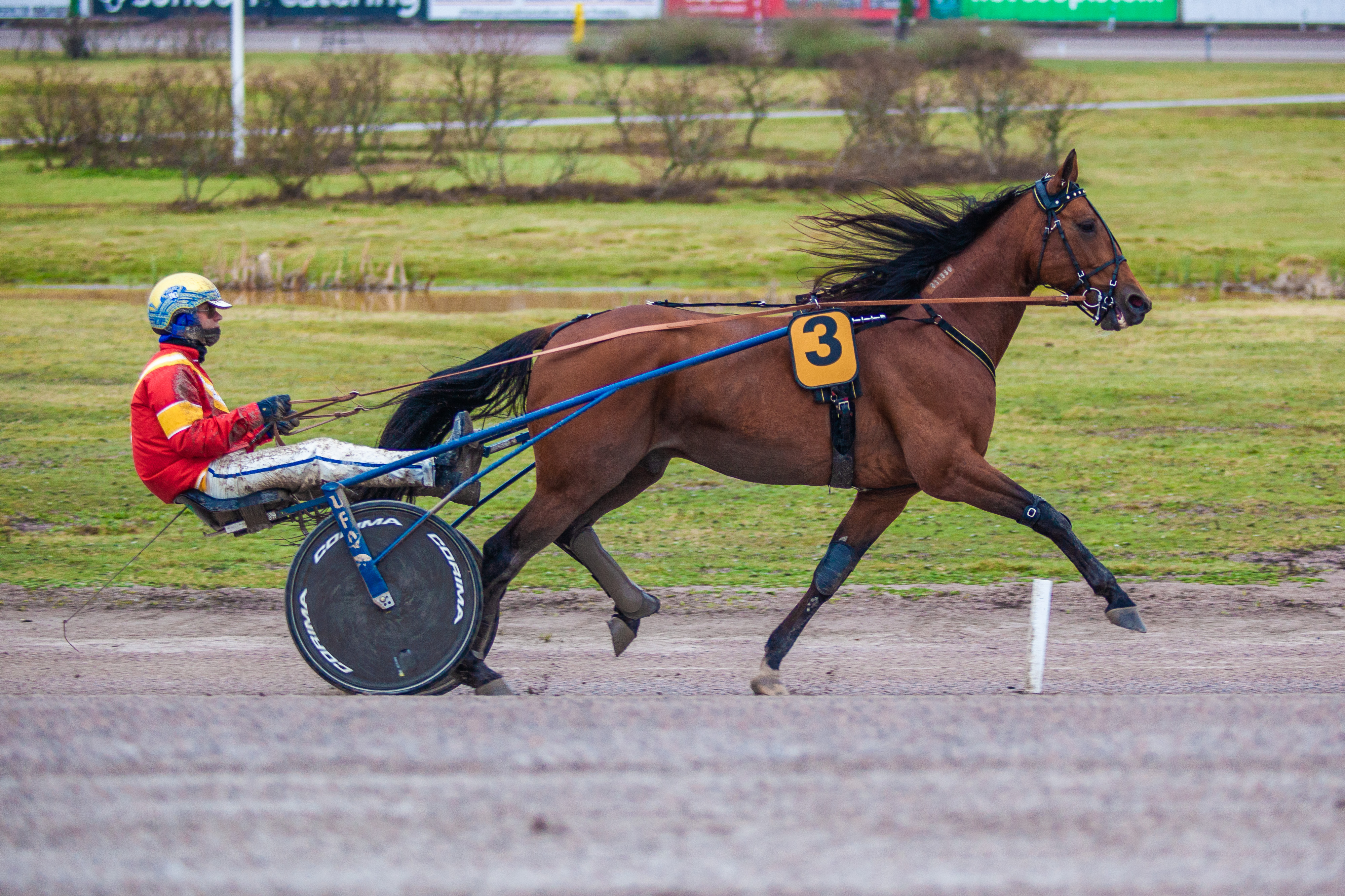 Björn Goop and Readly Express at Vermo 4.5.2019